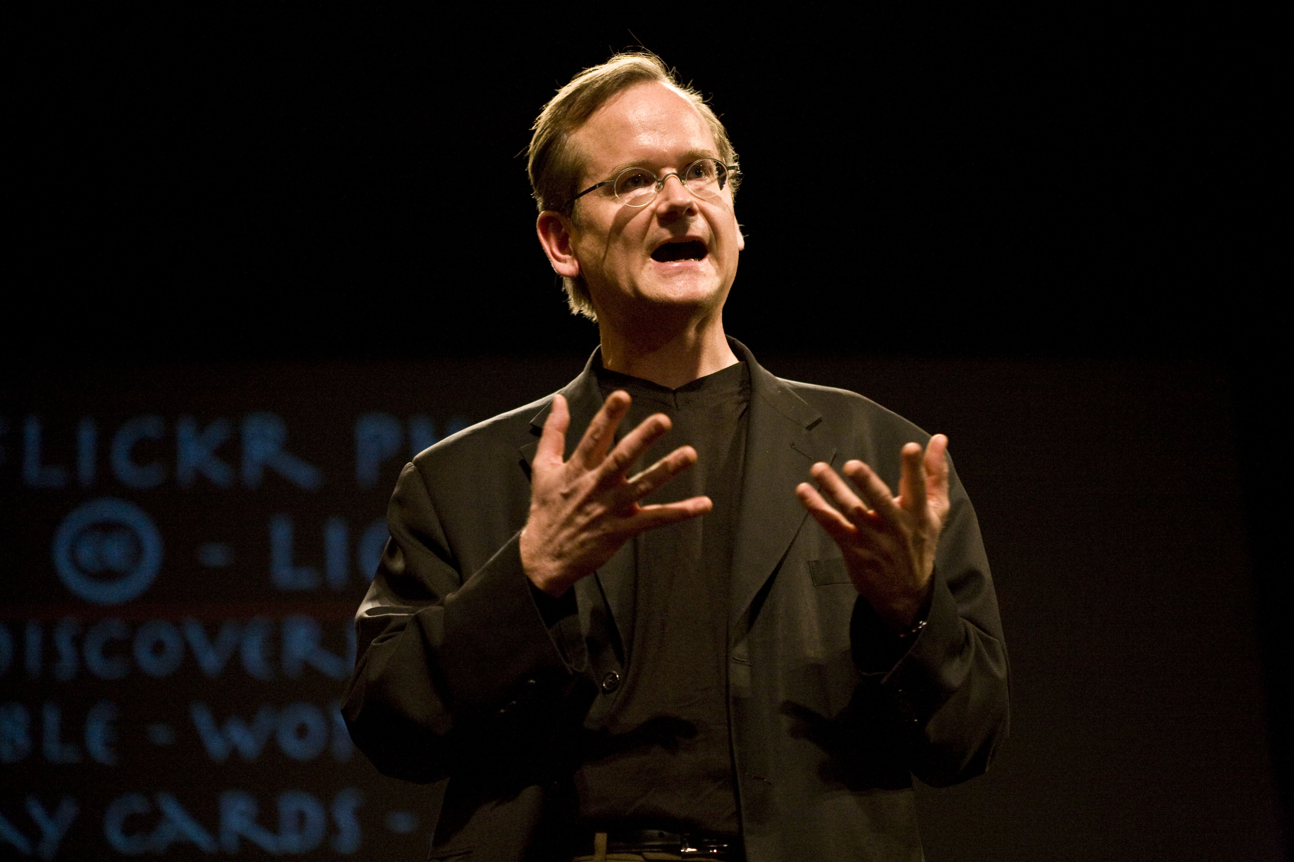 Larry Lessig gives his last speech on Free Culture at Stanford University.